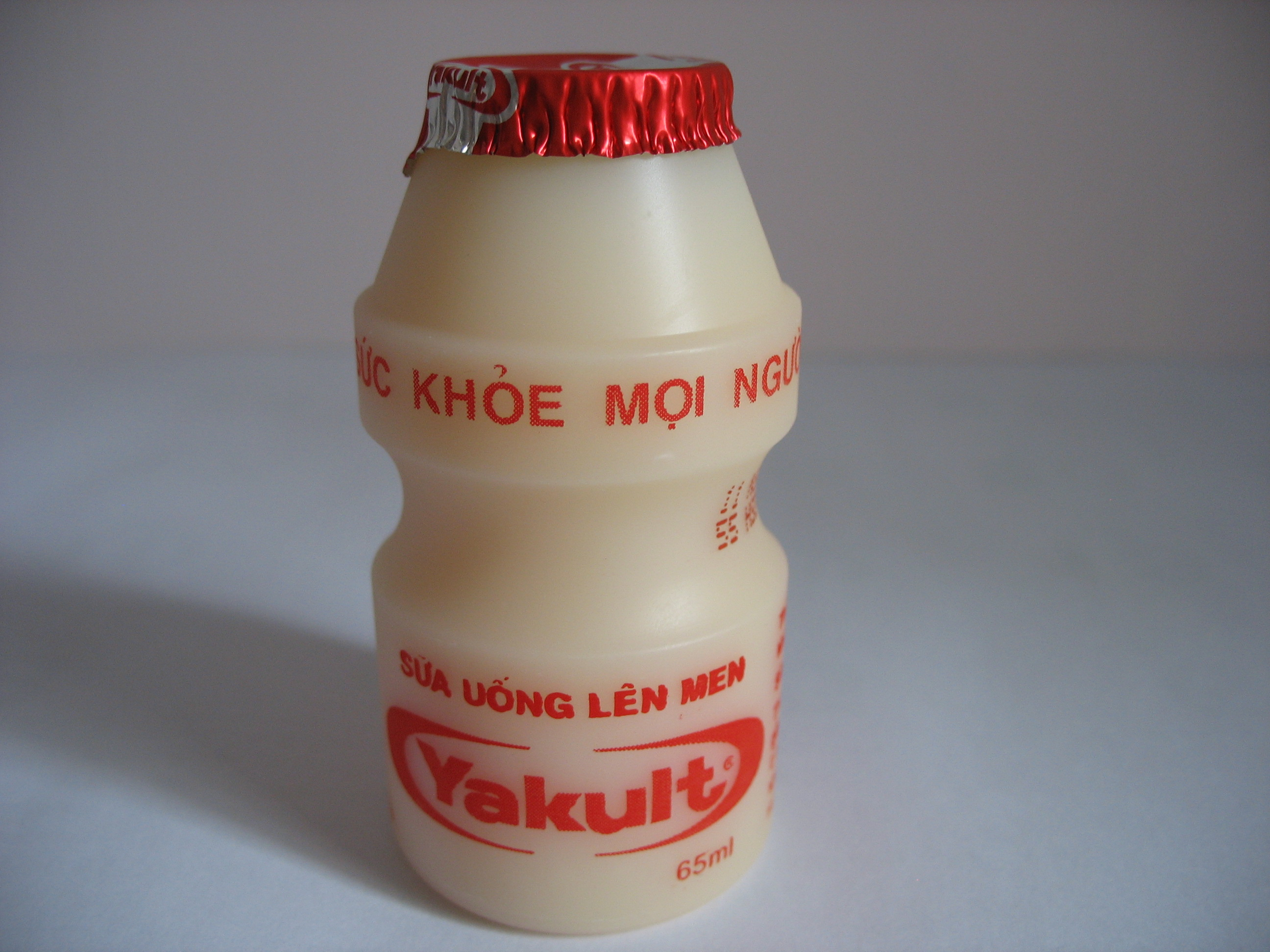 Yakult 65ml in Vietnam